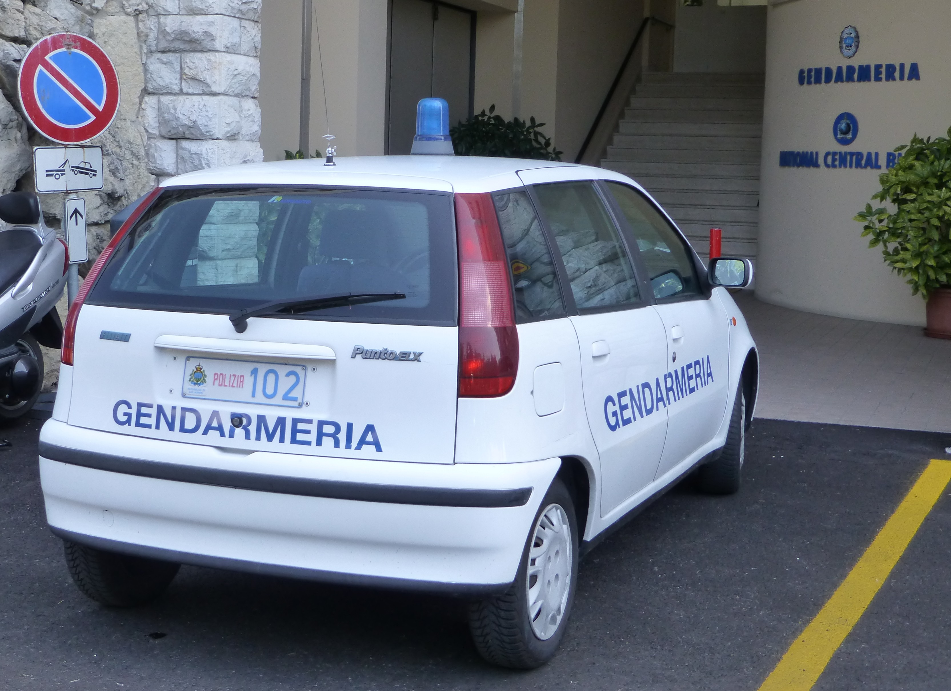 Fiat Punto, Gendarmeria of San Marino